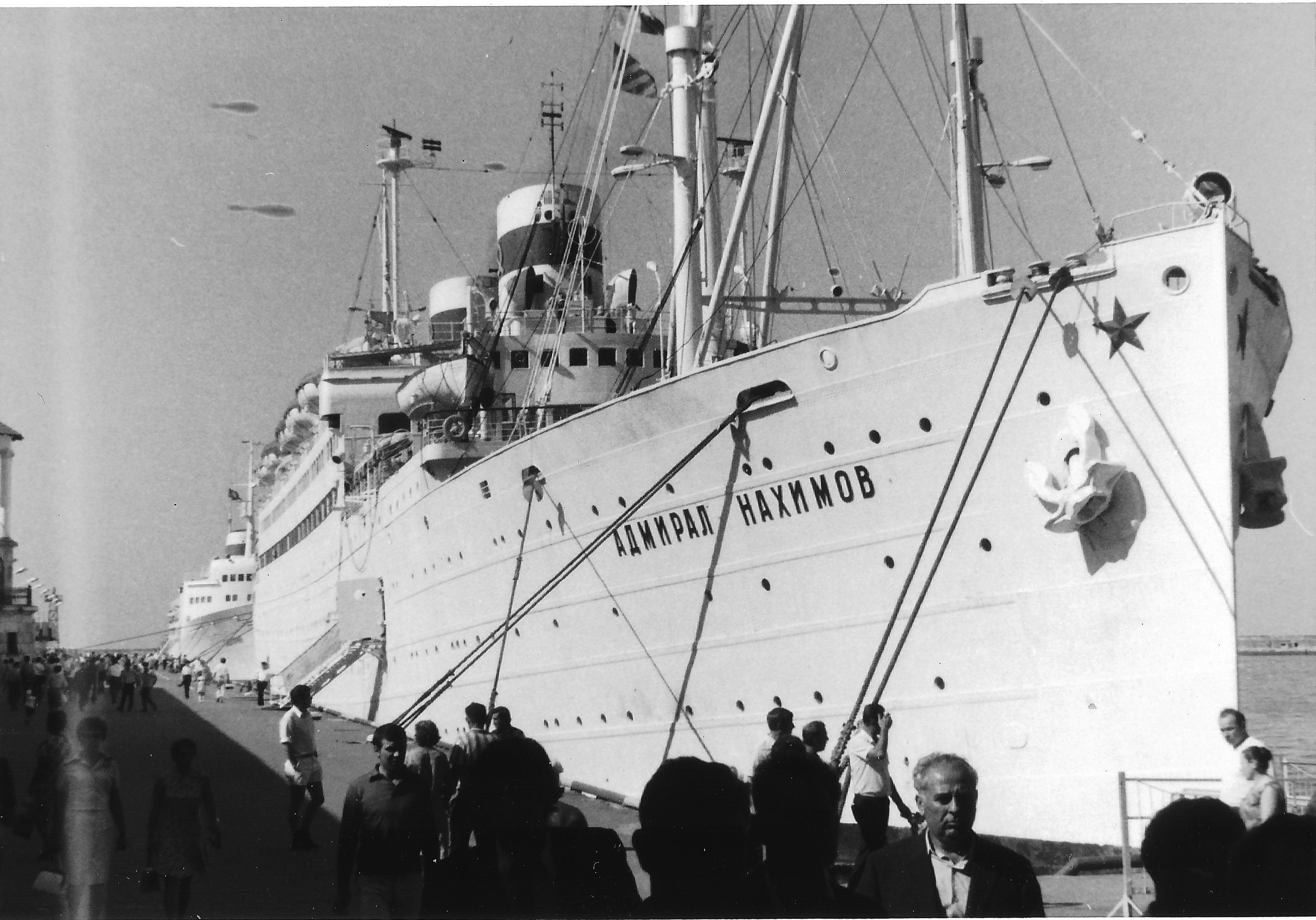 Of the private Photos of Dr Hans Jonke. Other Photos of the show no ships, just from a tourist journey through russia.